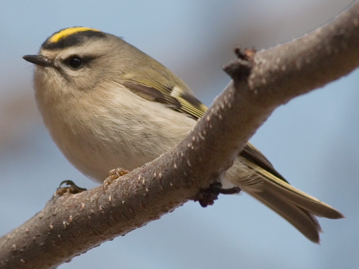 A Golden-Crowned Kinglet (Regulus satrapa), taken in Milwaukee, Wisconsin